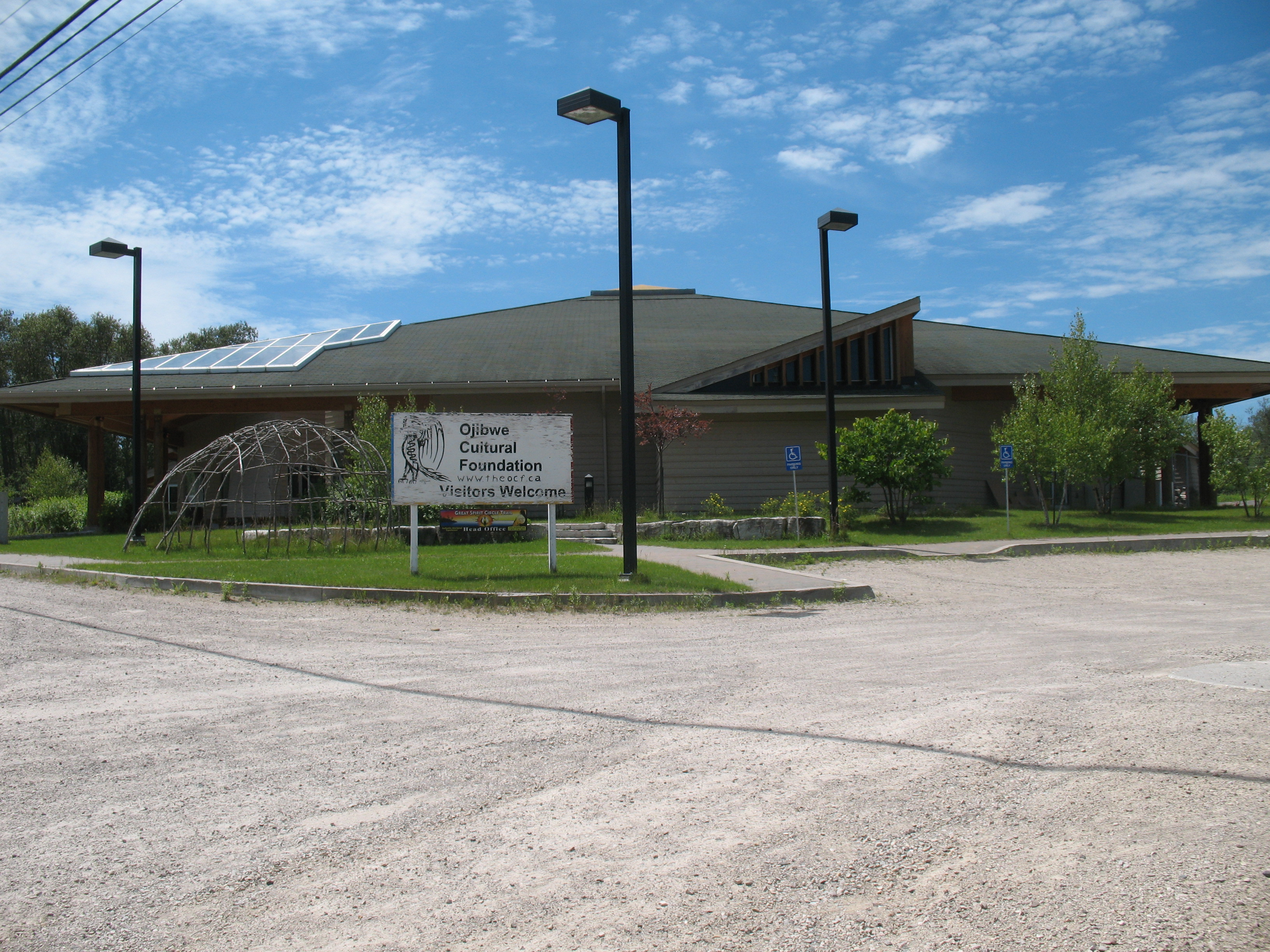 Ojibwe_Cultural_Foundation on Manitoulin Island